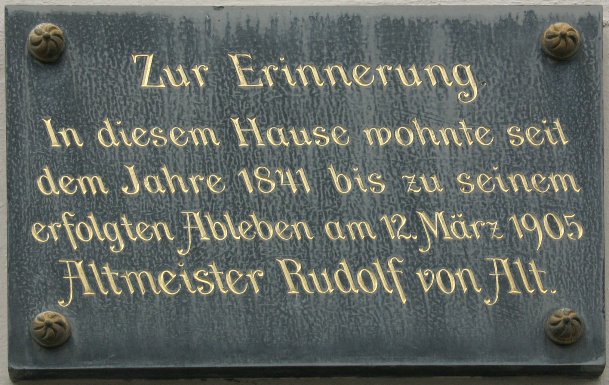 Skodagasse, Vienna